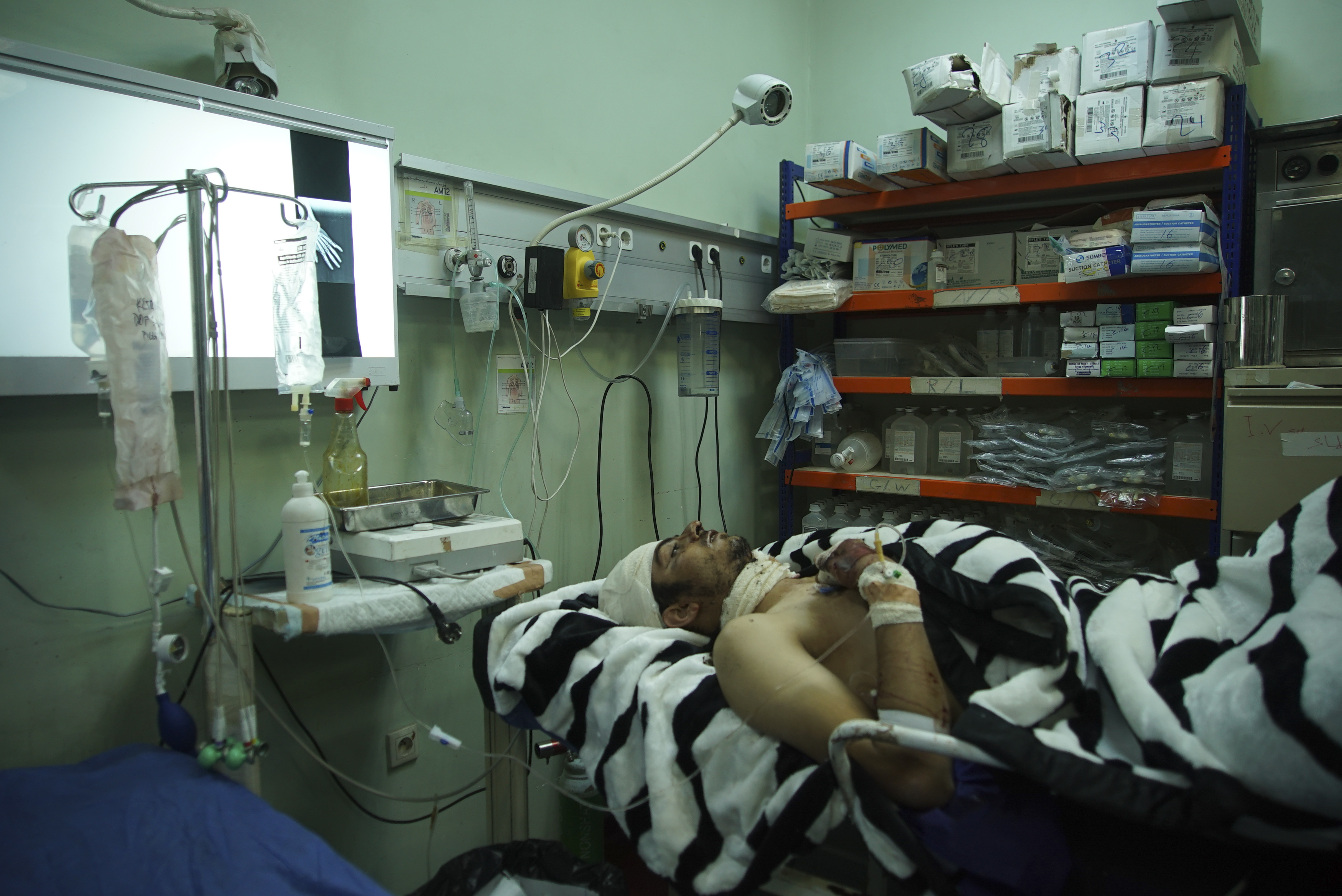 Wounded ISOF soldier in West Erbil hospital. Erbil Governorate, Iraqi Kurdistan, Iraq, Western Asia. 27 November, 2016.